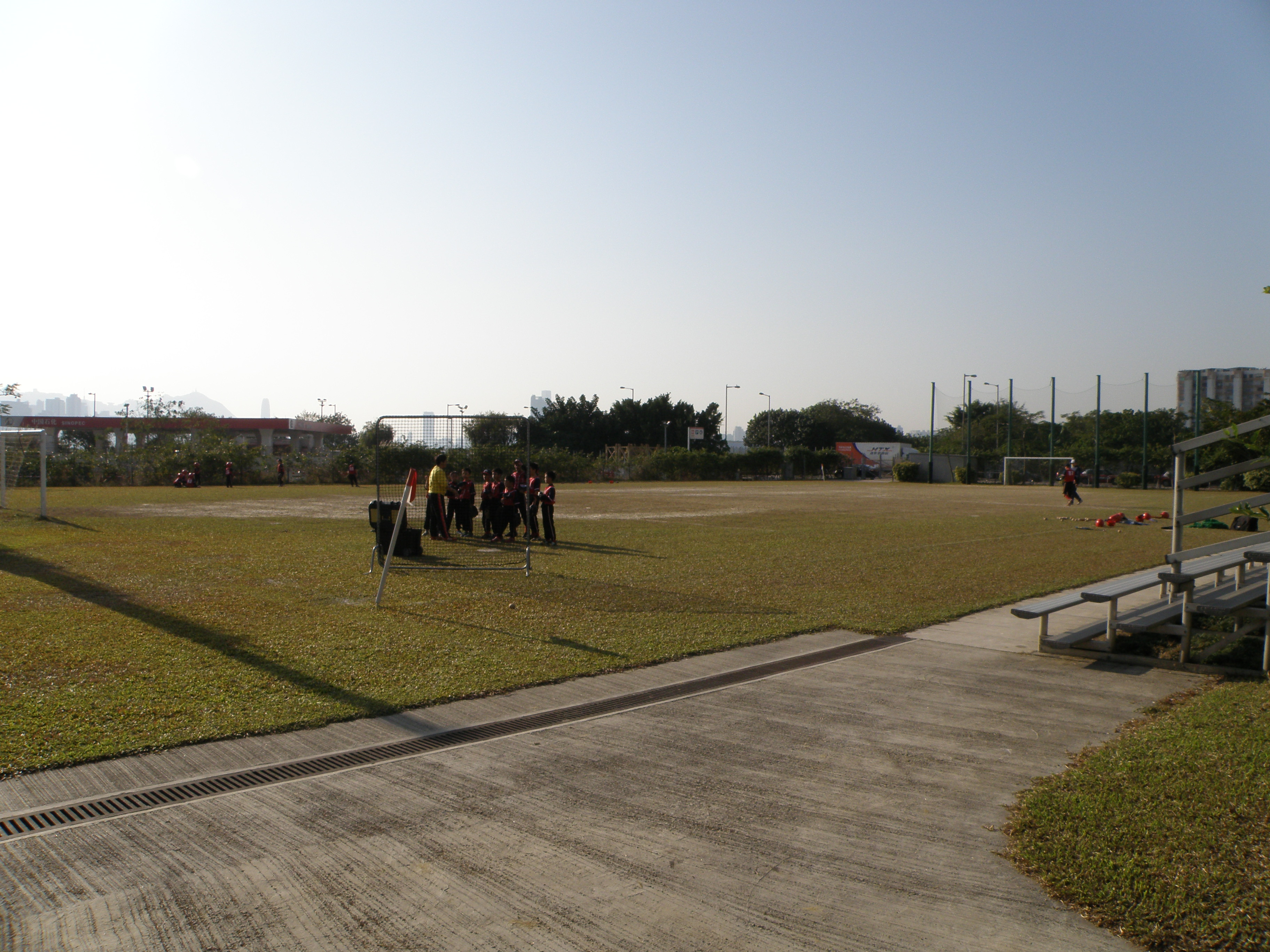 Wai Lok Street Temporary Soccer Pitch in Lam Tin, Hong Kong.